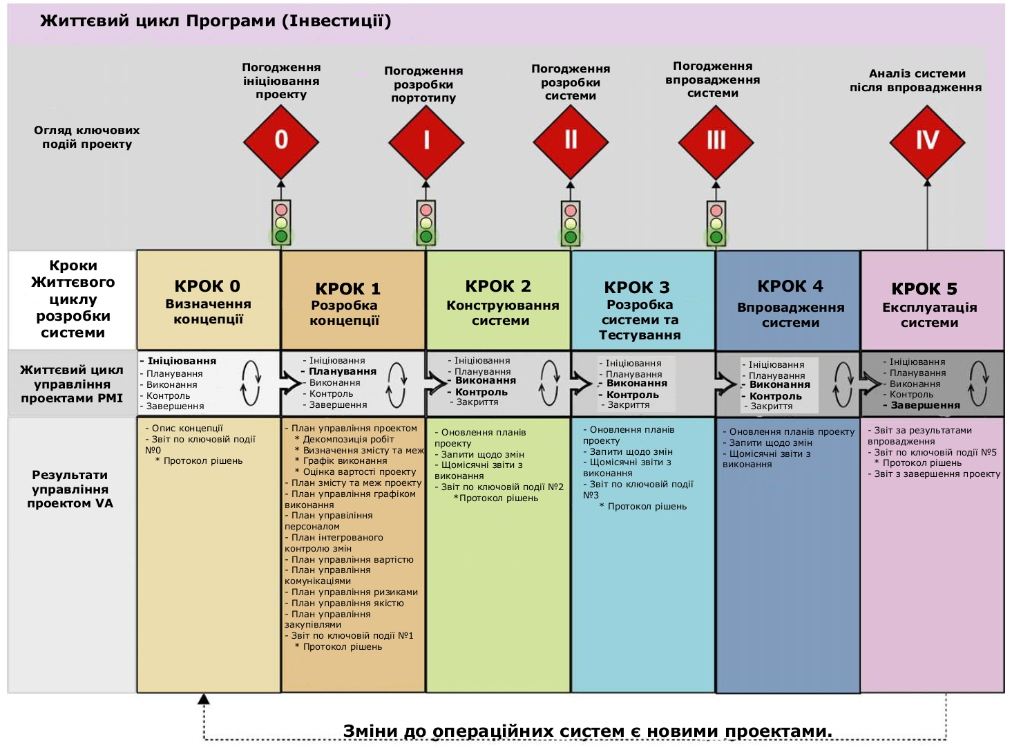 VA IT Project Management Framework